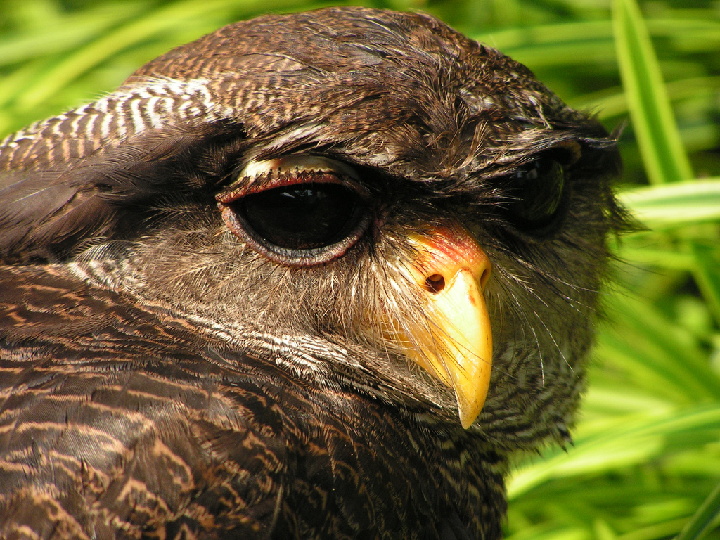 Barred Eagle Owl Bubo sumatranus; Captive, at Kuala Lumpur Bird Park, Kuala Lumpur, Malaysia